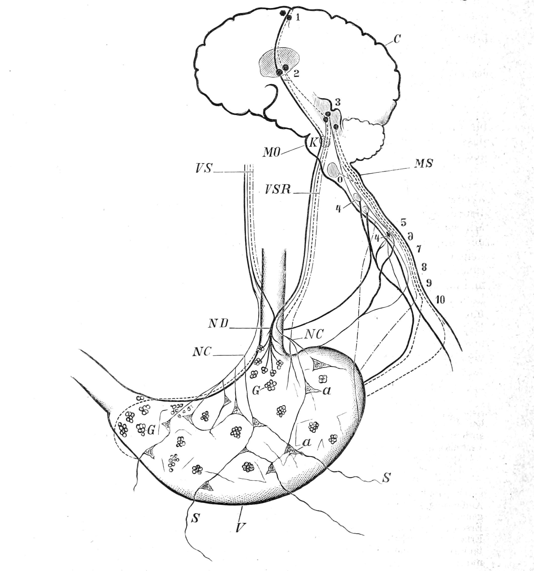 Stomach innervation according to Openchowski (1889)